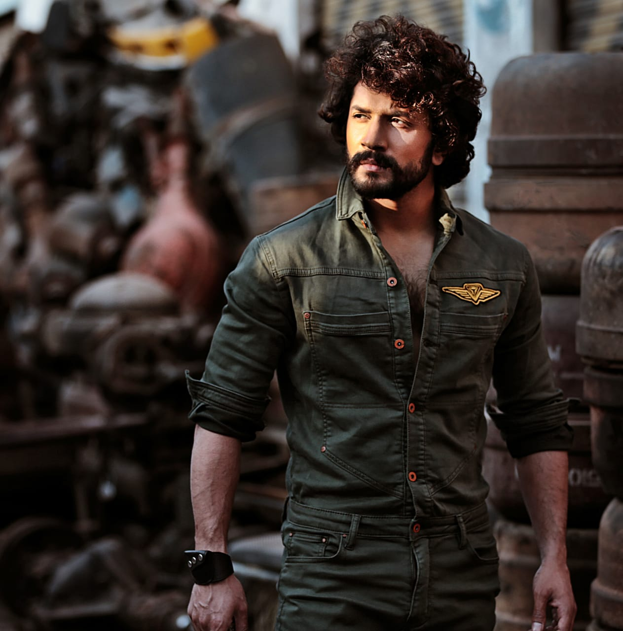 Bhuvann during the shooting of Randhawa Movie